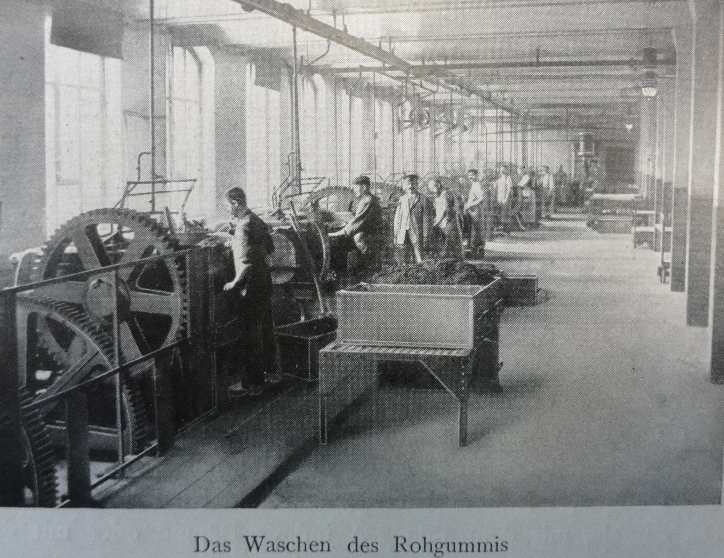 Hannover Gummiwerk Excelsior, washing and preprocessing of cauotchouc 1912